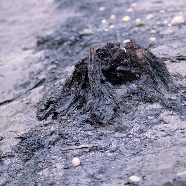 Axel Heiberg Island: Mummified Metasequoia occidentalis stump, Mummified forest on Geodetic Hills